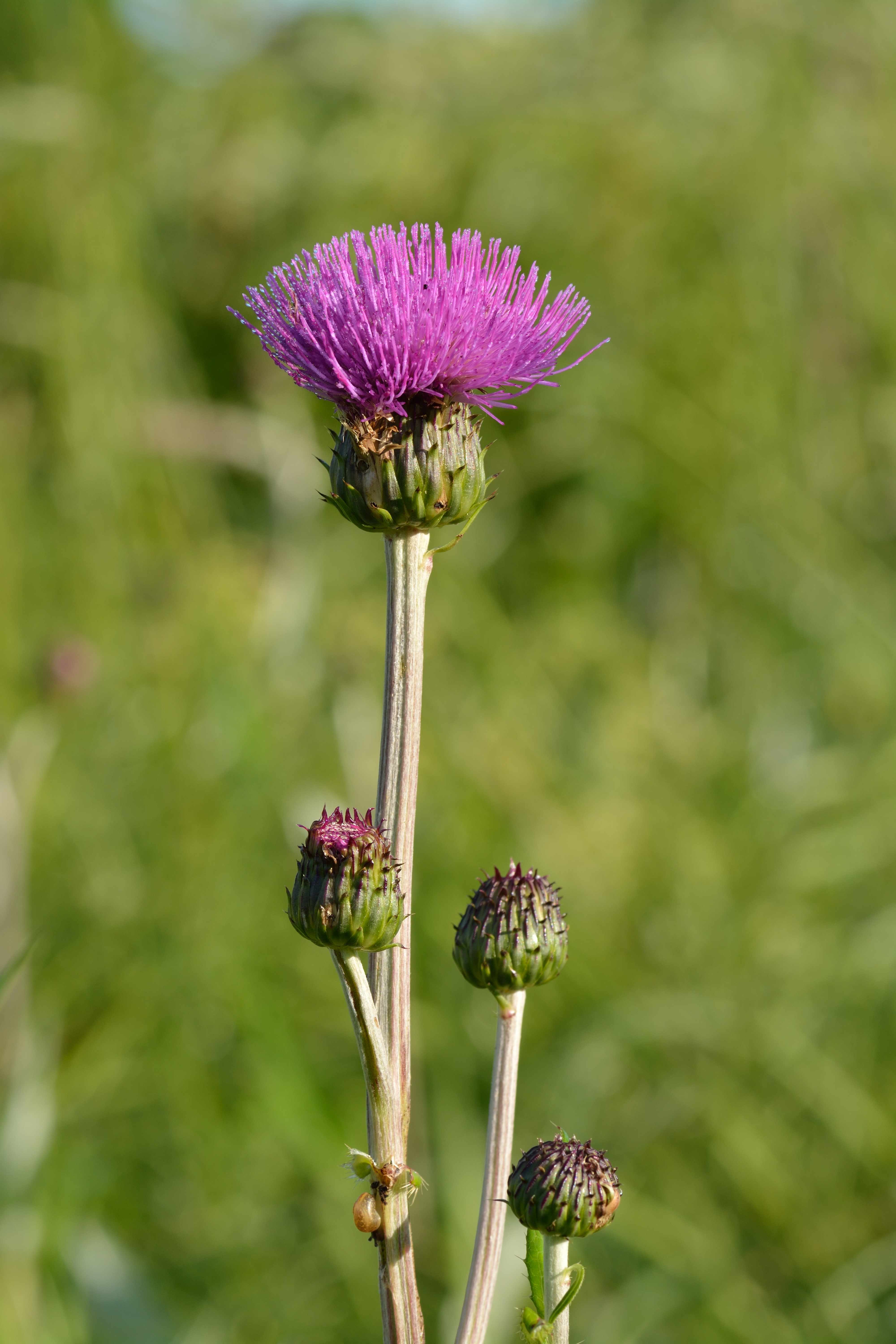 Melancholy thistle (Cirsium heterophyllum). Meadow in Illurmaa village, Northwestern Estonia.